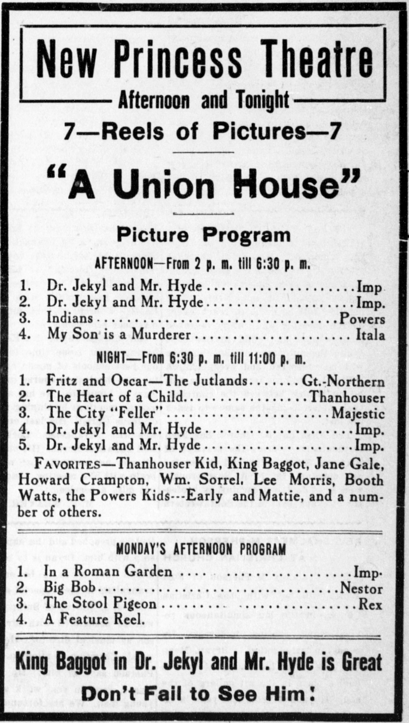 List of upcoming shows